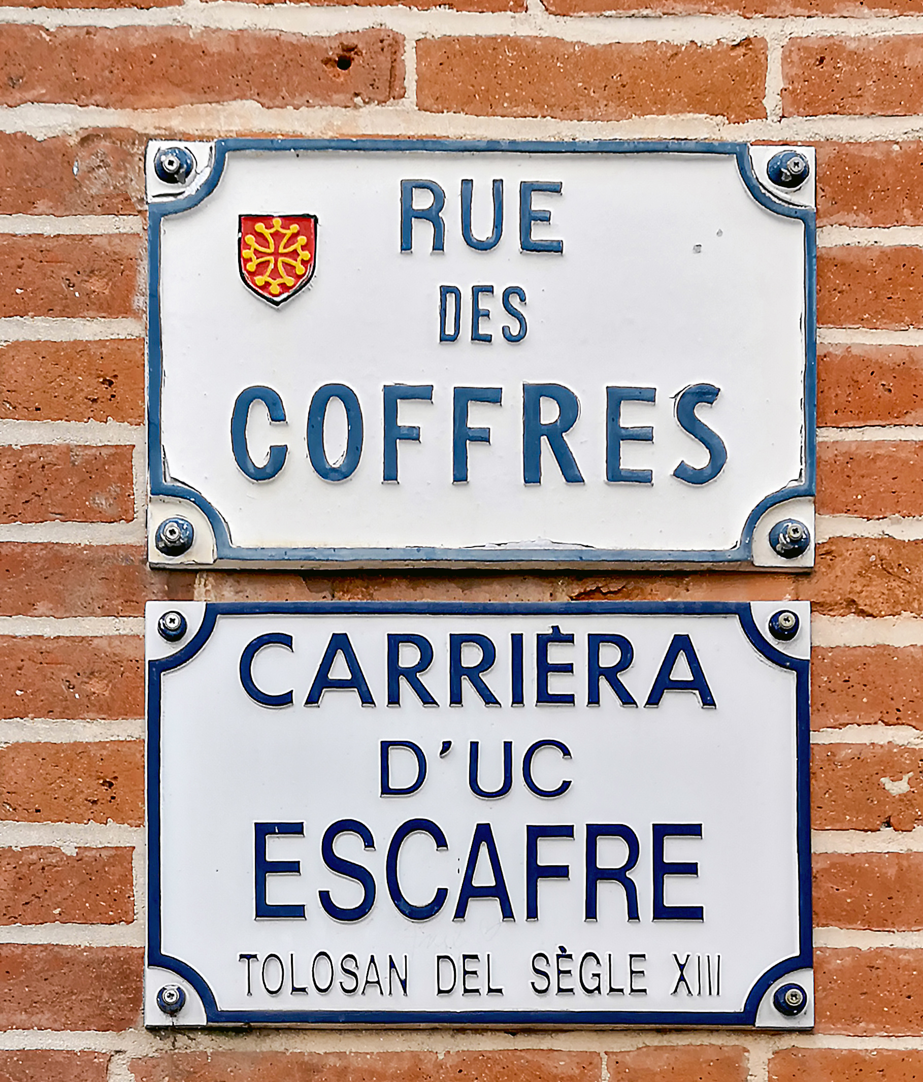 Rue des Coffres, in Toulouse - Street name sign. They have the particularity of being: in French and Occitan.